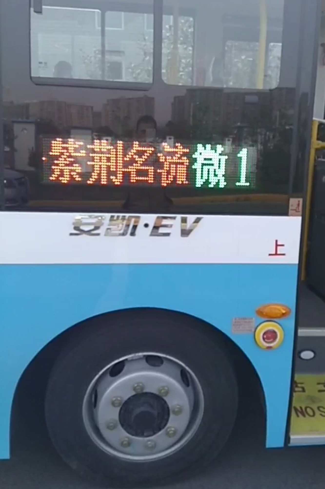 Bengbu Bus Micro No.1 Line LED